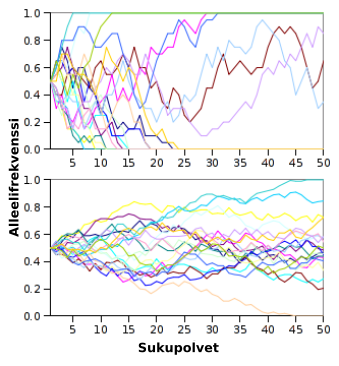 Simulation of genetic drift of 20 unlinked alleles in populations of 10 (top) and 100 (bottom). Drift to fixation is more rapid in the smaller population.